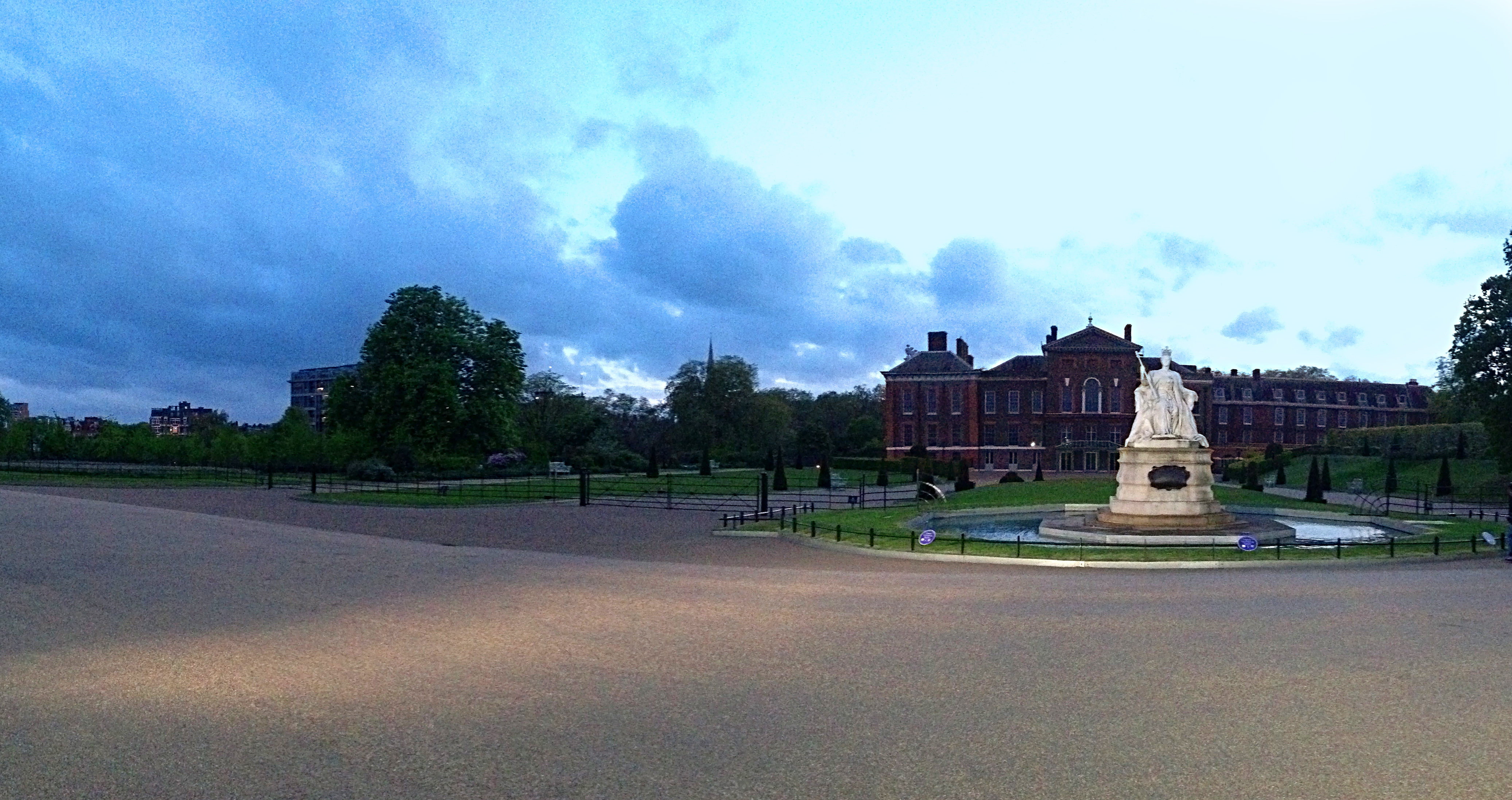 The Duke and Duchess of Cambridge announced via Kensington Palace this afternoon that they have named their daughter Charlotte Elizabeth Diana. The newborn baby girl will be known as Her Royal Highness Princess Charlotte of Cambridge. Princess was born on 2 May 2015 at 8:34am, weighing 8lbs 3 oz and will be fourth in line to the throne.